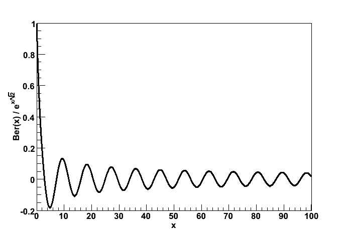 A plot of B e r ( x ) / e x / 2 {\displaystyle \mathrm {Ber} (x)/e^{x/{\sqrt {2 between 0 and 100.